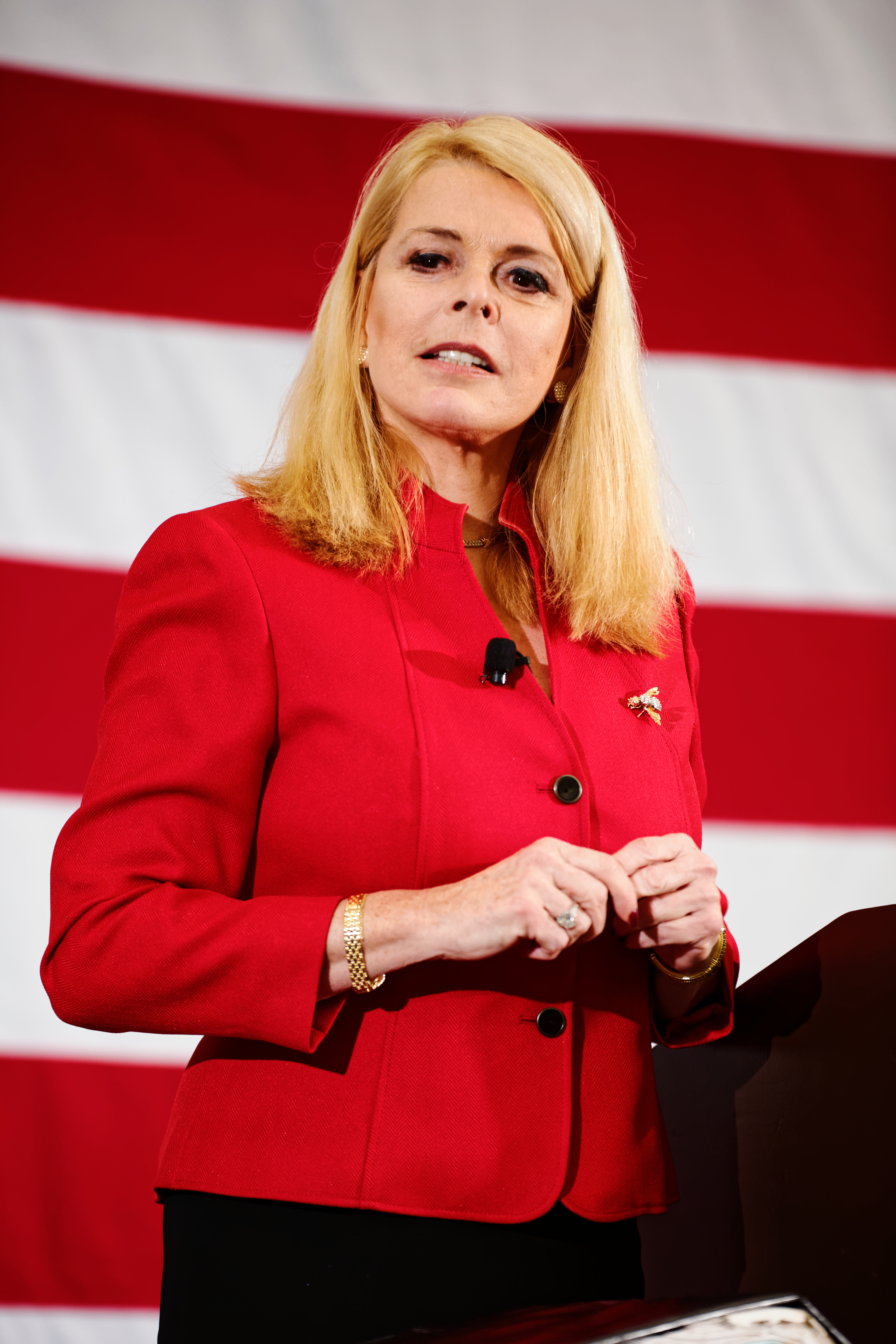 FITN First In Nation Republican Leadership Summit, Nashua, New Hampshire Crowne Plaza Nashua Address: 2 Somerset Pkwy, Nashua, NH 03063 Every four years, the political world descends upon New Hampshire to take part in the “First-in-the-Nation” Presidential Primary. On April 17th and 18th that excitement will again percolate in the Granite State for the #FITN Republican Leadership Conference. Elizabeth "Betsy" McCaughey (/məˈkɔɪ/; born Elizabeth Helen Peterken, October 20, 1948), formerly known as Betsy McCaughey Ross, is an American politician who was Lieutenant Governor of New York from 1995 to 1998, during the first term of Governor George Pataki. She unsuccessfully sought the Democratic Party nomination for Governor after Pataki dropped her from his 1998 ticket, and ended up on the ballot under the Liberal party line. A historian by training, with a Ph.D. from Columbia University, McCaughey has, over the years, provided conservative media commentary on U.S. public policy affecting healthcare-related issues. Her 1993 attack on the Clinton healthcare plan was likely a major factor in the initially-popular bill's defeat in Congress; also, it brought her to the attention of Republican Pataki, who chose her as his Lieutenant Governor nominee/running mate. In 2009, her criticisms of the Affordable Care Act -- then a bill being debated in Congress -- again gained significant media attention in TV and radio interviews, and may have specifically inspired the "death panel" claim about the act. She has been a fellow at the conservative Manhattan Institute and Hudson Institute think tanks, and has written numerous articles and op-eds. She was a member of the boards of directors of medical equipment companies Genta (from 2001 to 2007) and Cantel Medical Corporation, until she resigned in 2009 to avoid the appearance of conflict-of-interest, given her public advocacy against the Affordable Care Act legislation.